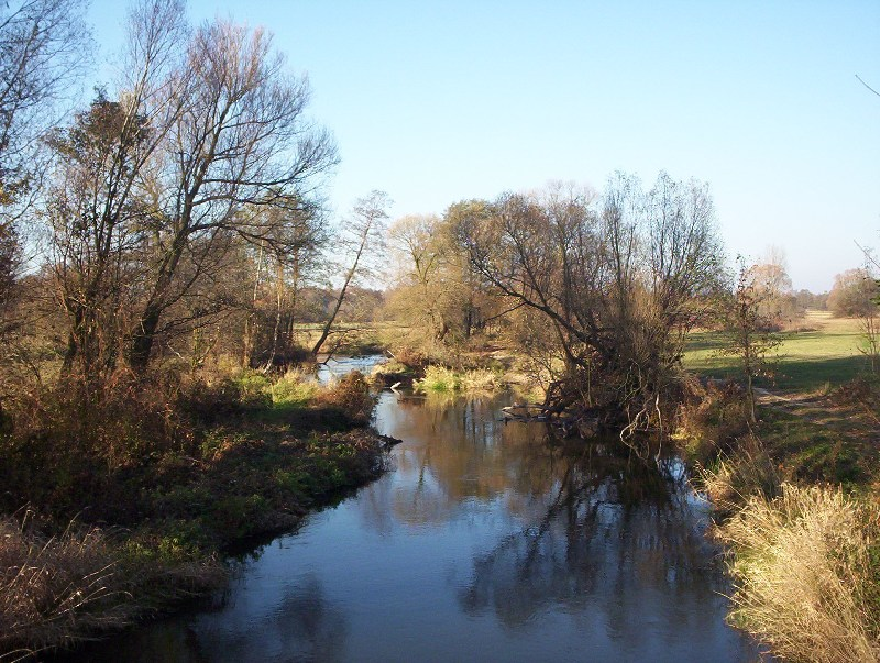 Rawka river in Doleck, eastern part of Łódź Voivodship, Poland.